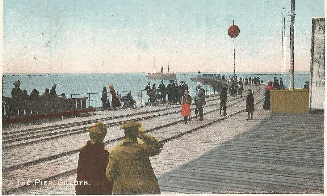 Picture postcard of Silloth Pier, England